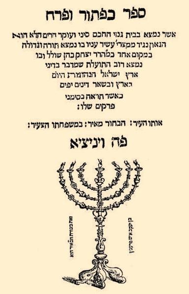 Title page of Ishtori Haparchi's topographical work on Palestine